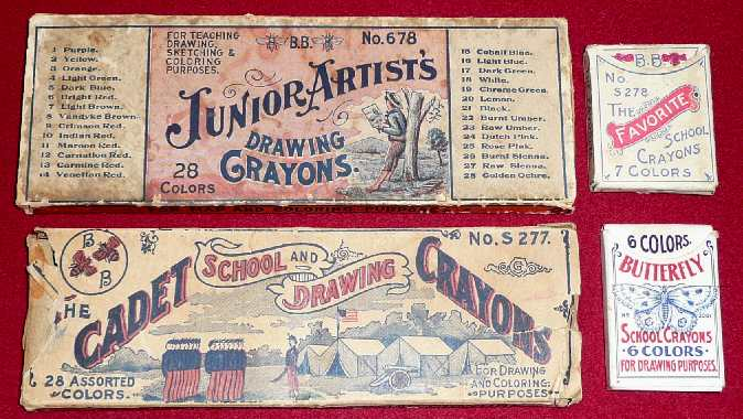 Original B.B. crayon boxes from the collection of Ed Welter